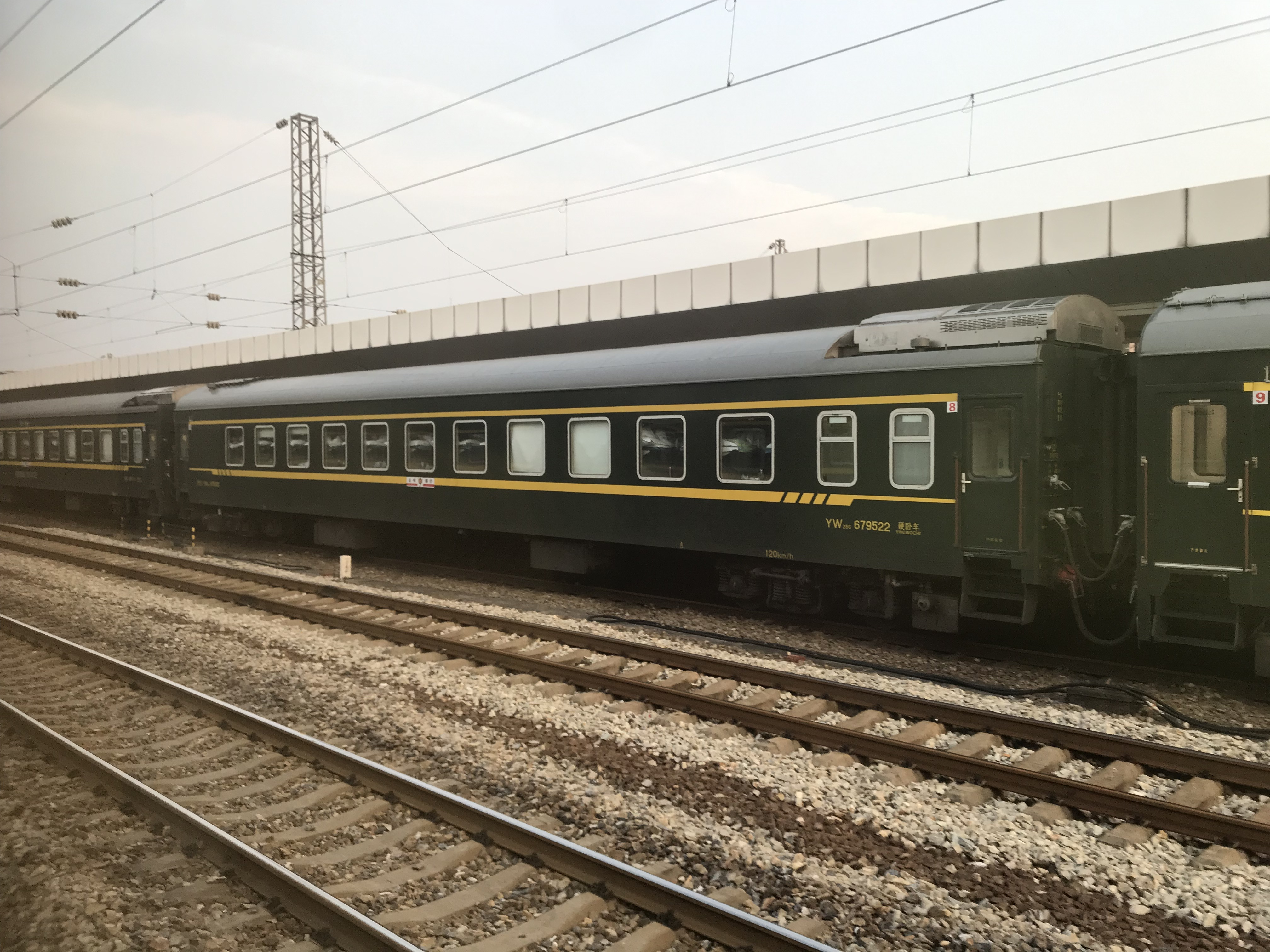 K878 from Kunming to Yantai